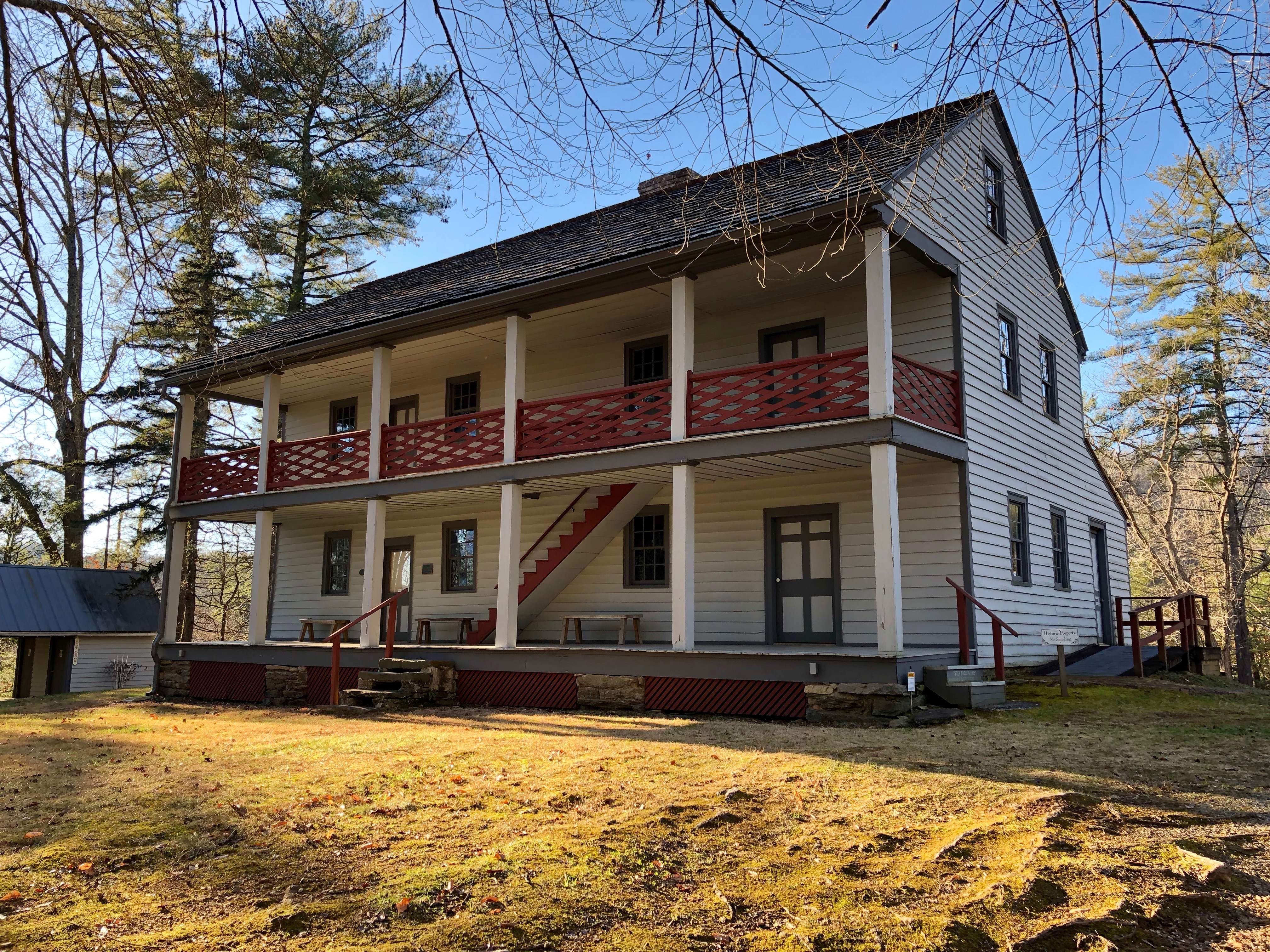 William Deaver House (Allison-Deaver House), Brevard, NC